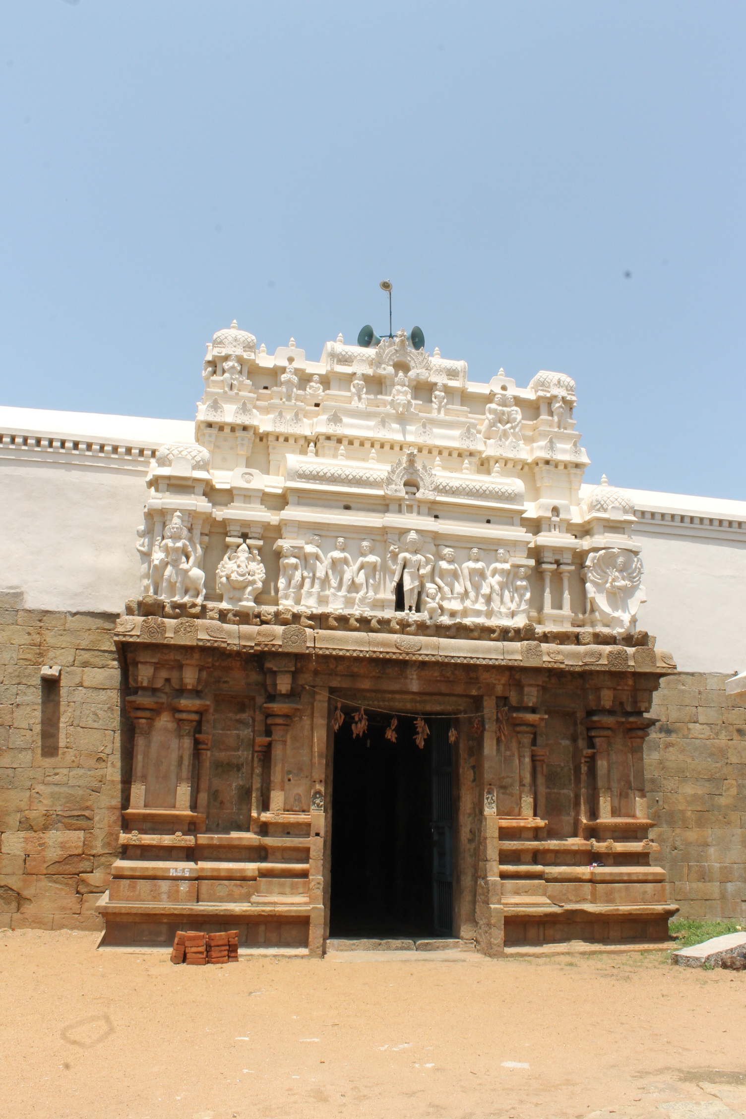 "Entrance of Rock Cut Siva Cave Temple". Location: Kunnandarkoil, Pudukottai district, Tamil Nadu, India.